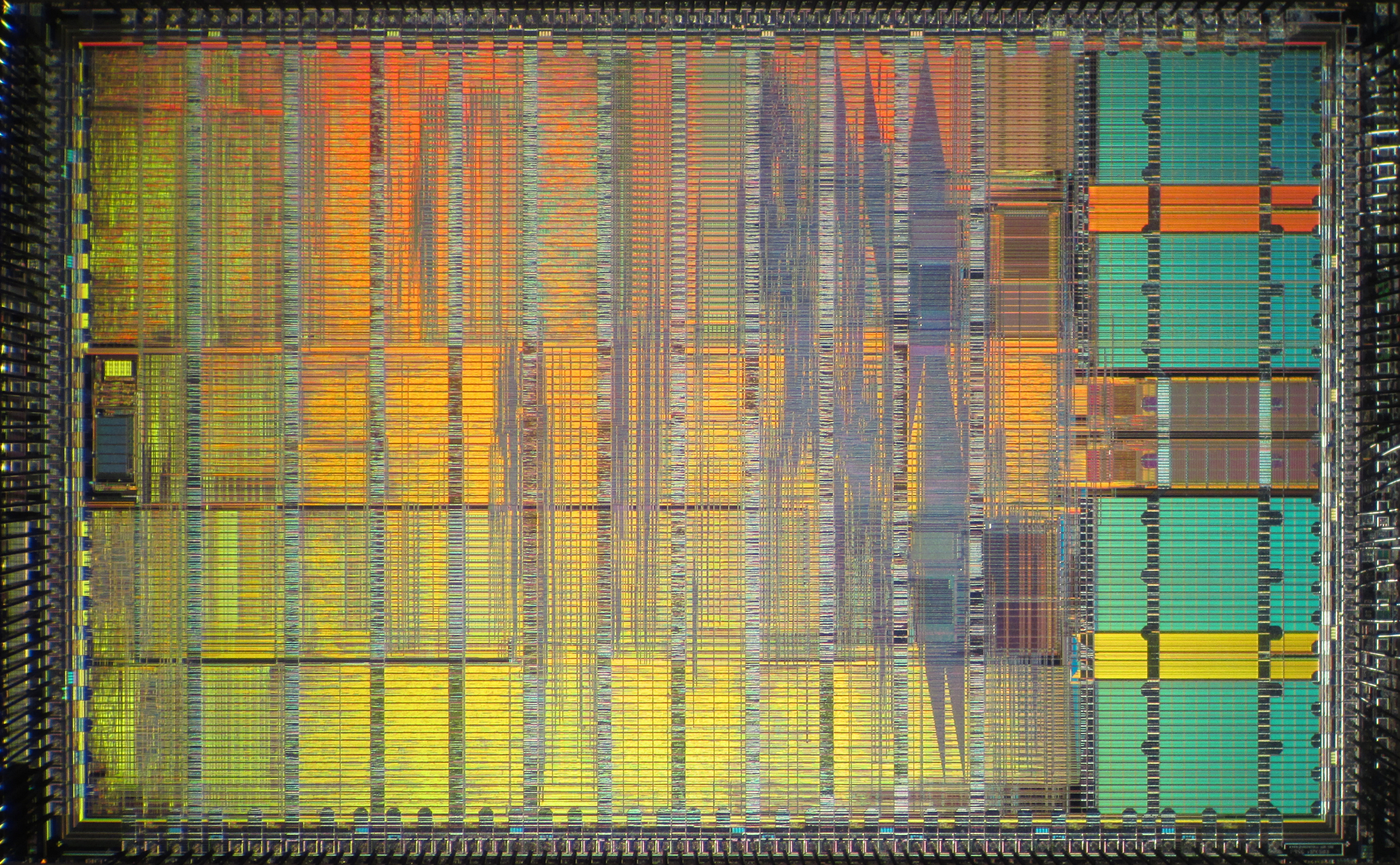 Die shot of Motorola PowerPC 603 microprocessor (XPC603FE75-2B, 2F95G mask).